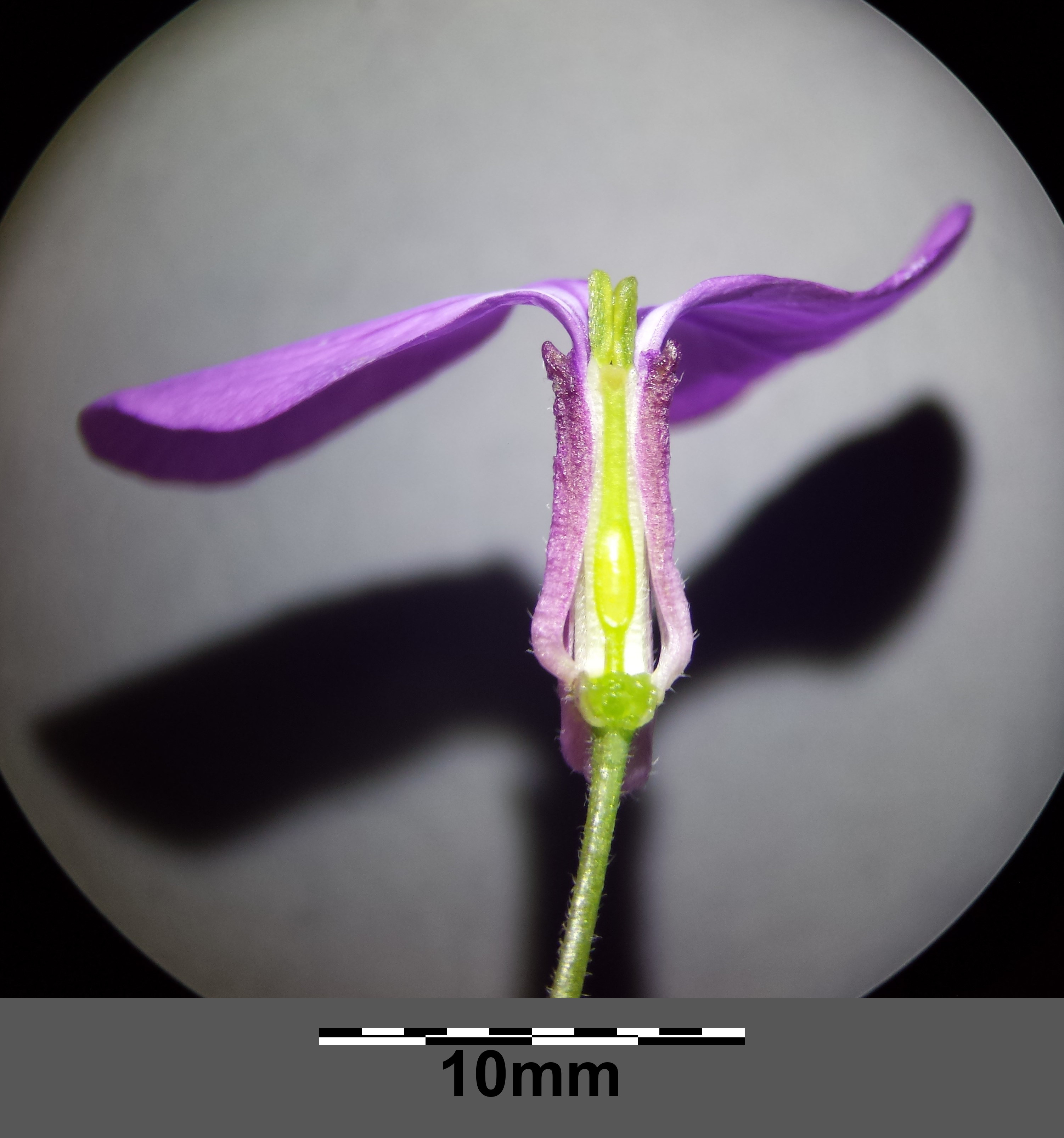 Flower, opened Taxonym: Lunaria annua ss Fischer et al. EfÖLS 2008 ISBN 978-3-85474-187-9 Location: near Karnabrunner, district Korneuburg, Lower Austria - ca. 358 m a.s.l. Habitat: border of a wood